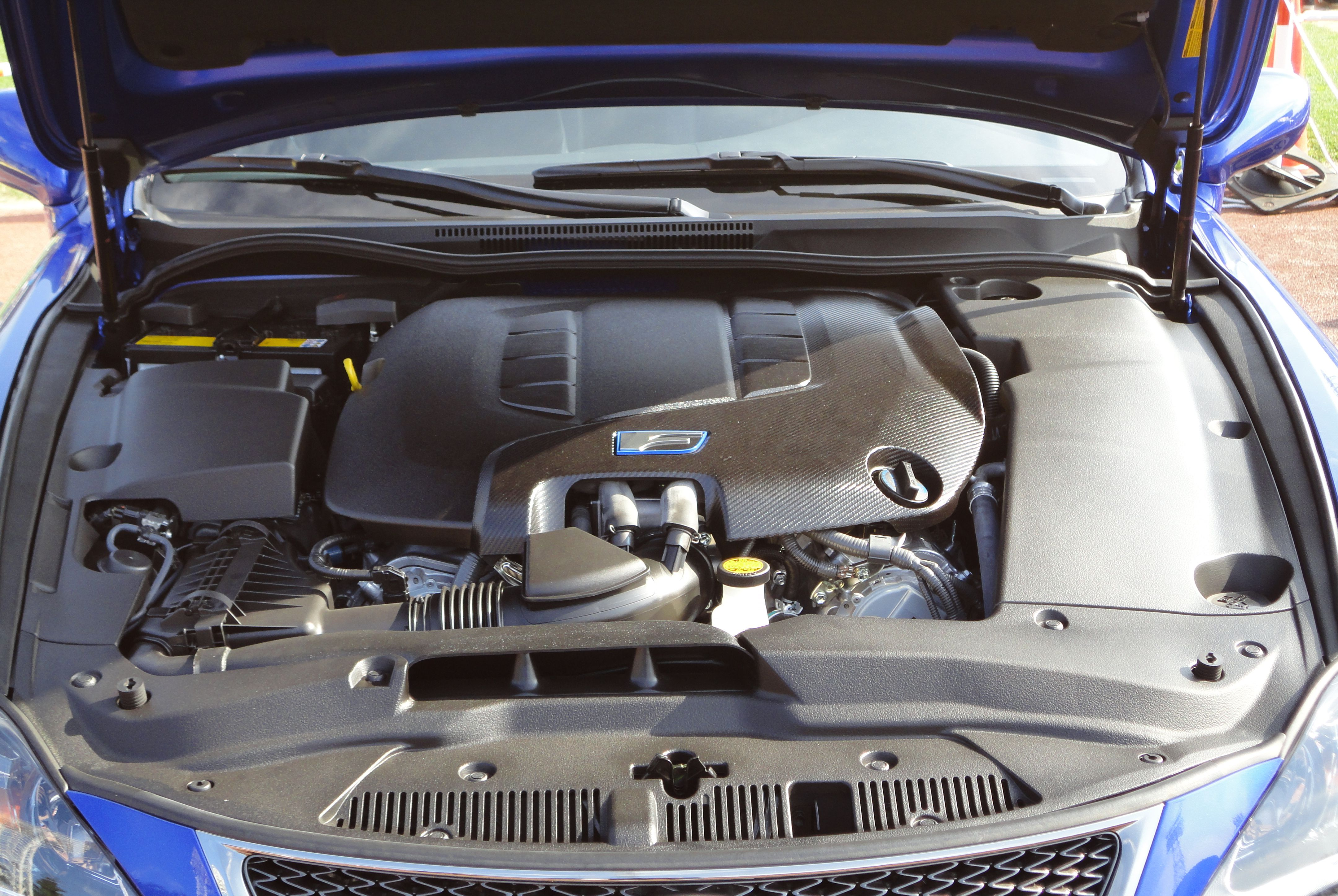 LEXUS IS F '11MY engine compartment